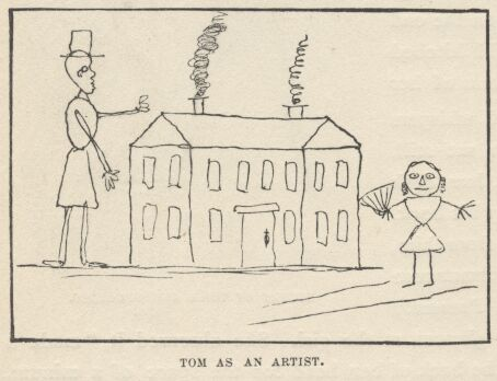 Illustrations de The Adventures of Tom Sawyer, 1876.